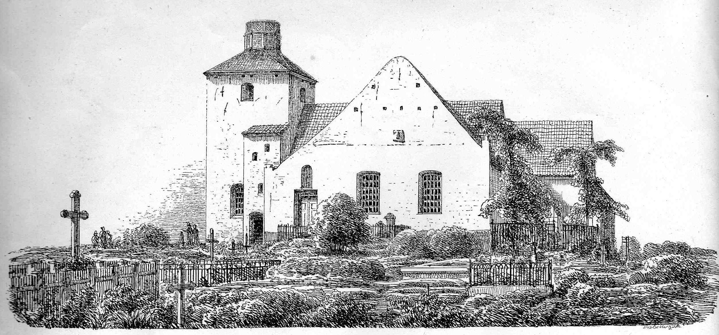 Scanned by myself from a copy of the old book in 2007. The book was graciously lent to me by Det Kongelige Garnisonsbibliotek.